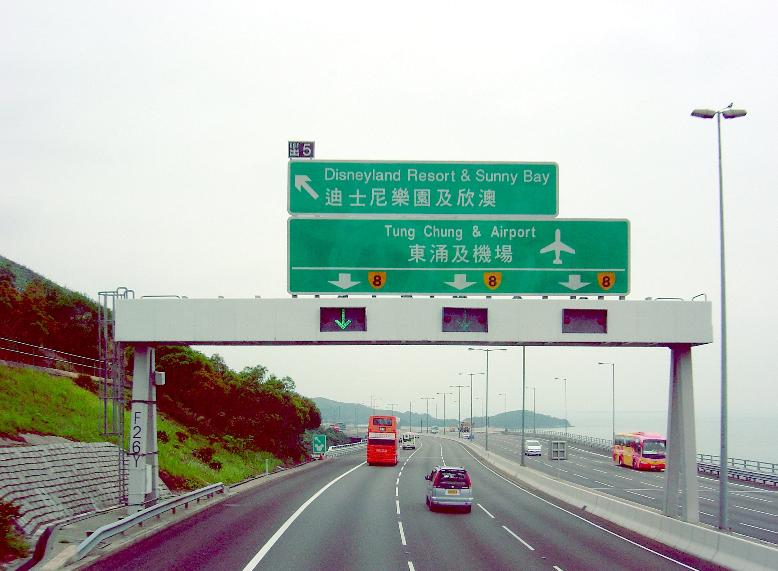 North Lantau Highway Overhead Sign